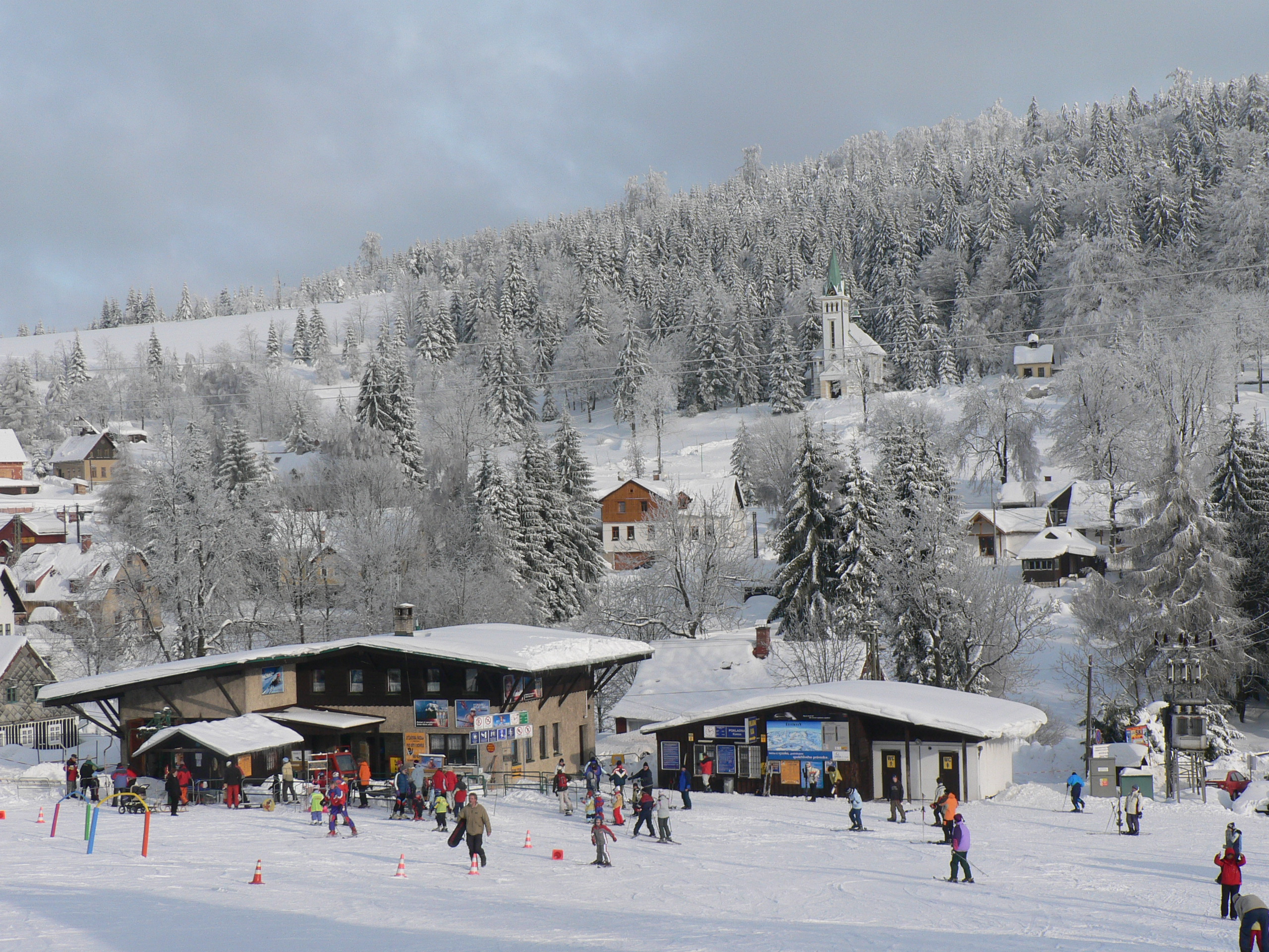 Skiressort Bedrichov